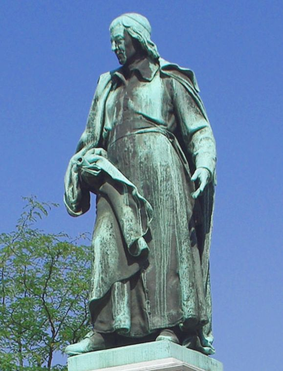 Statue of Slovene priest, schoolmaster and poet Valentin Vodnik (1758-1819), placed at Vodnik Square (Vodnikov trg), Ljubljana, Slovenia.